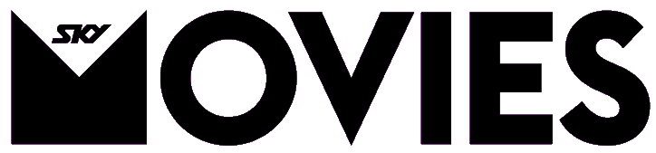 Logo of Sky Movies, a group of subscription TV film movie channels in New Zealand.